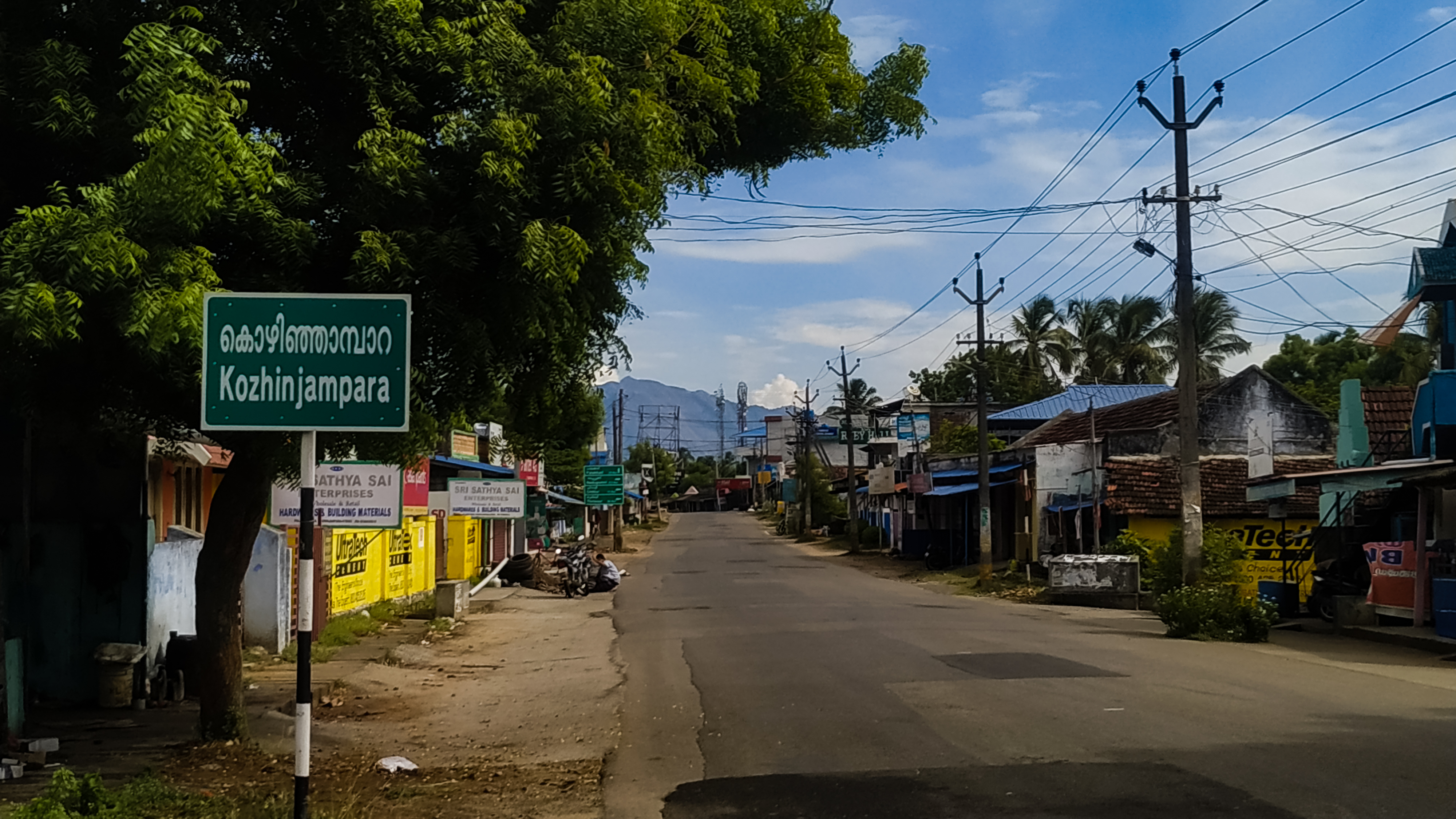 A picture of kozhinjampara village in chittur taluk of Kerala, India.